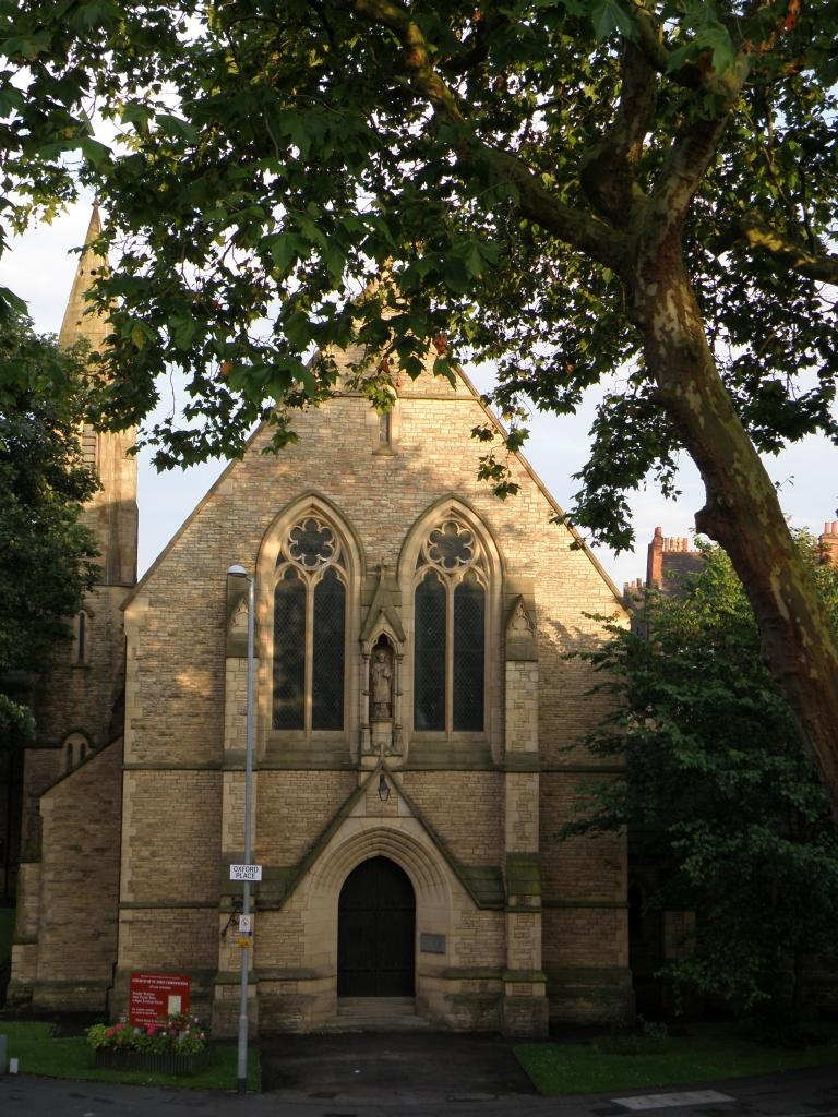 St Chrysostom's parish church, Anson Road, Victoria Park, Manchester, seen from the northwest